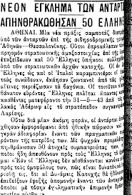 Publication of occupation newspaper in Greece during the period of WWII June 1943, accusing Greek partisans of the death of 50 Greek citizens in the blast of the railway tunnel in Kurnovo, Central Greece.